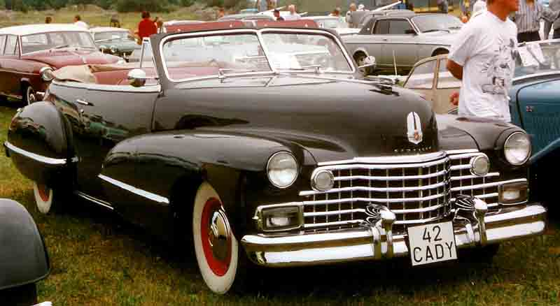 1942 Cadillac Series 42-6257D Opt. Convertible Club Coupe (Fisher-Bodies)